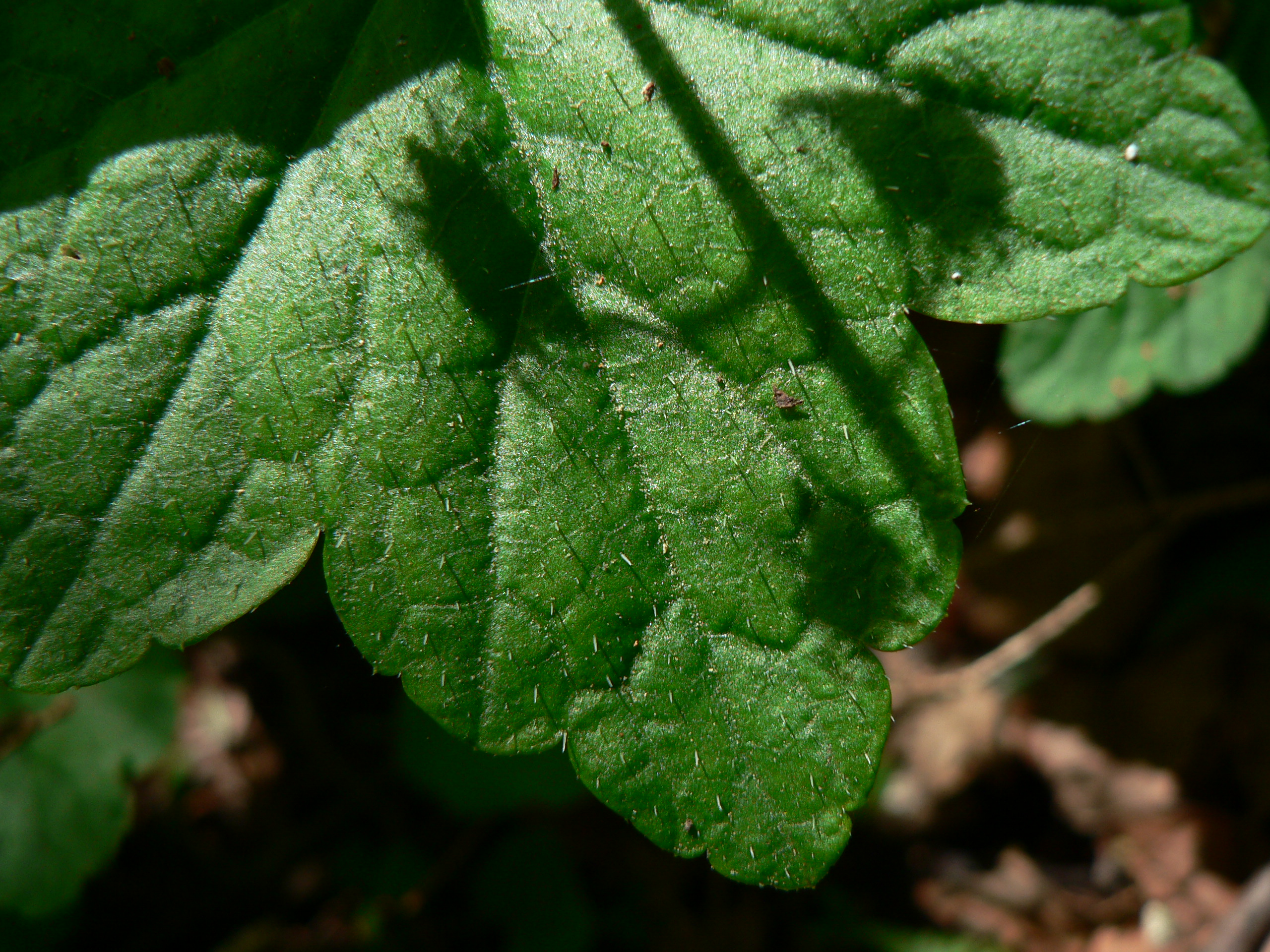 Slightstemmed Miterwort